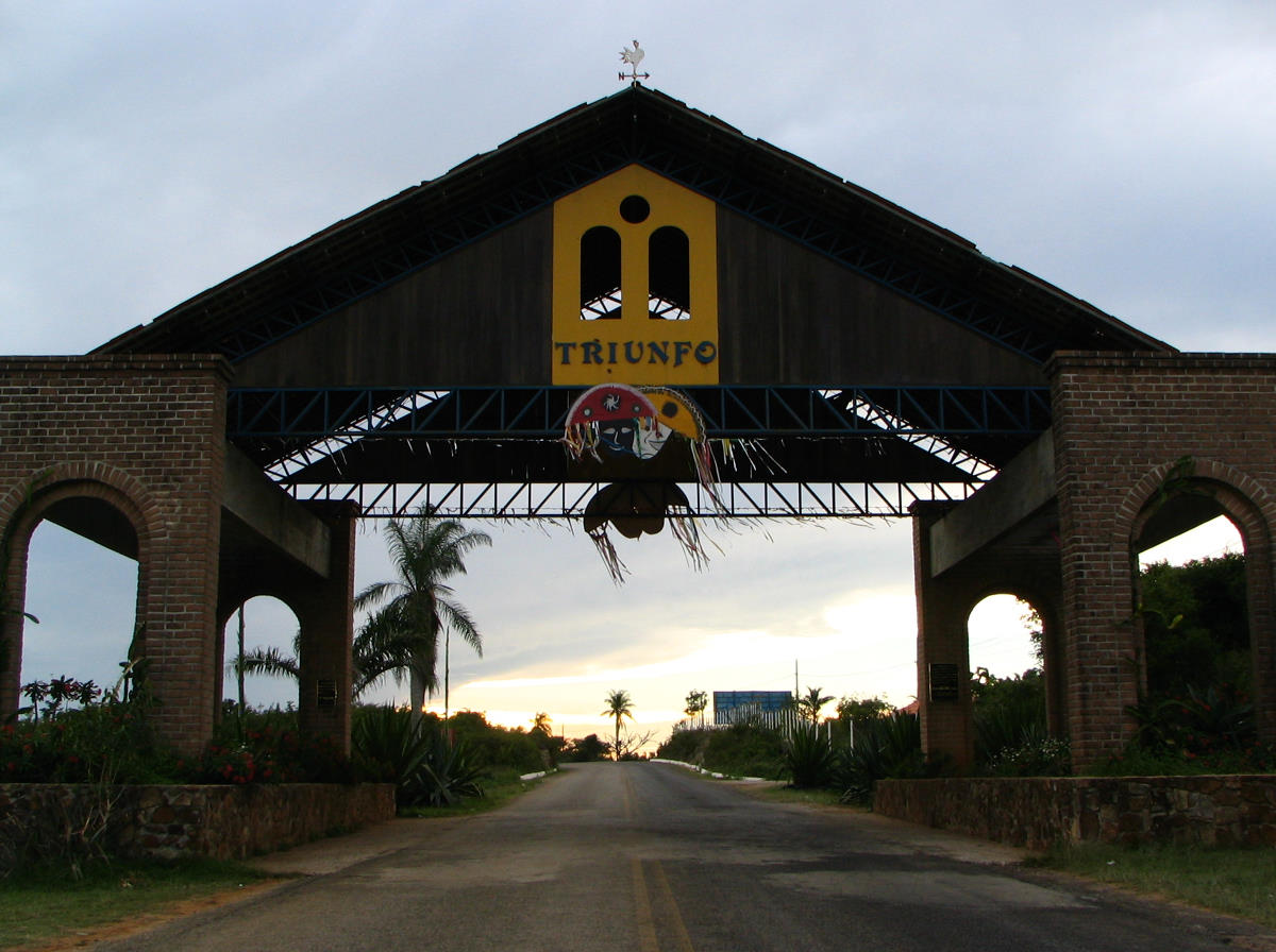 The northwest portal of the city of Triunfo in the state of Pernambuco in the northeast region of Brazil